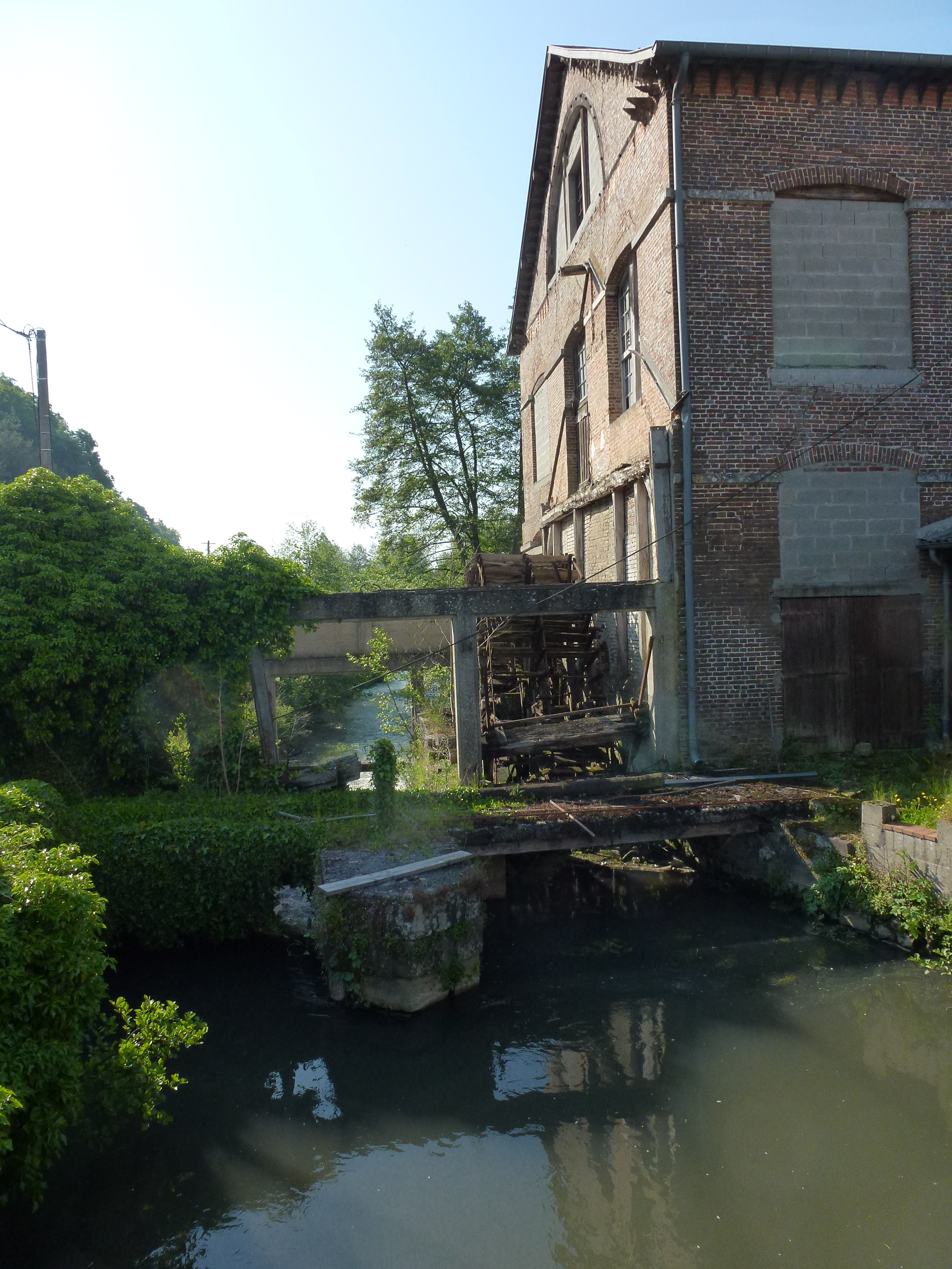 Fontaine-l'Abbé (Eure, Fr) moulin de la Charentonne